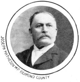 Canadian Member of Parliament, Joseph Matheson, Richmond County, Nova Scotia